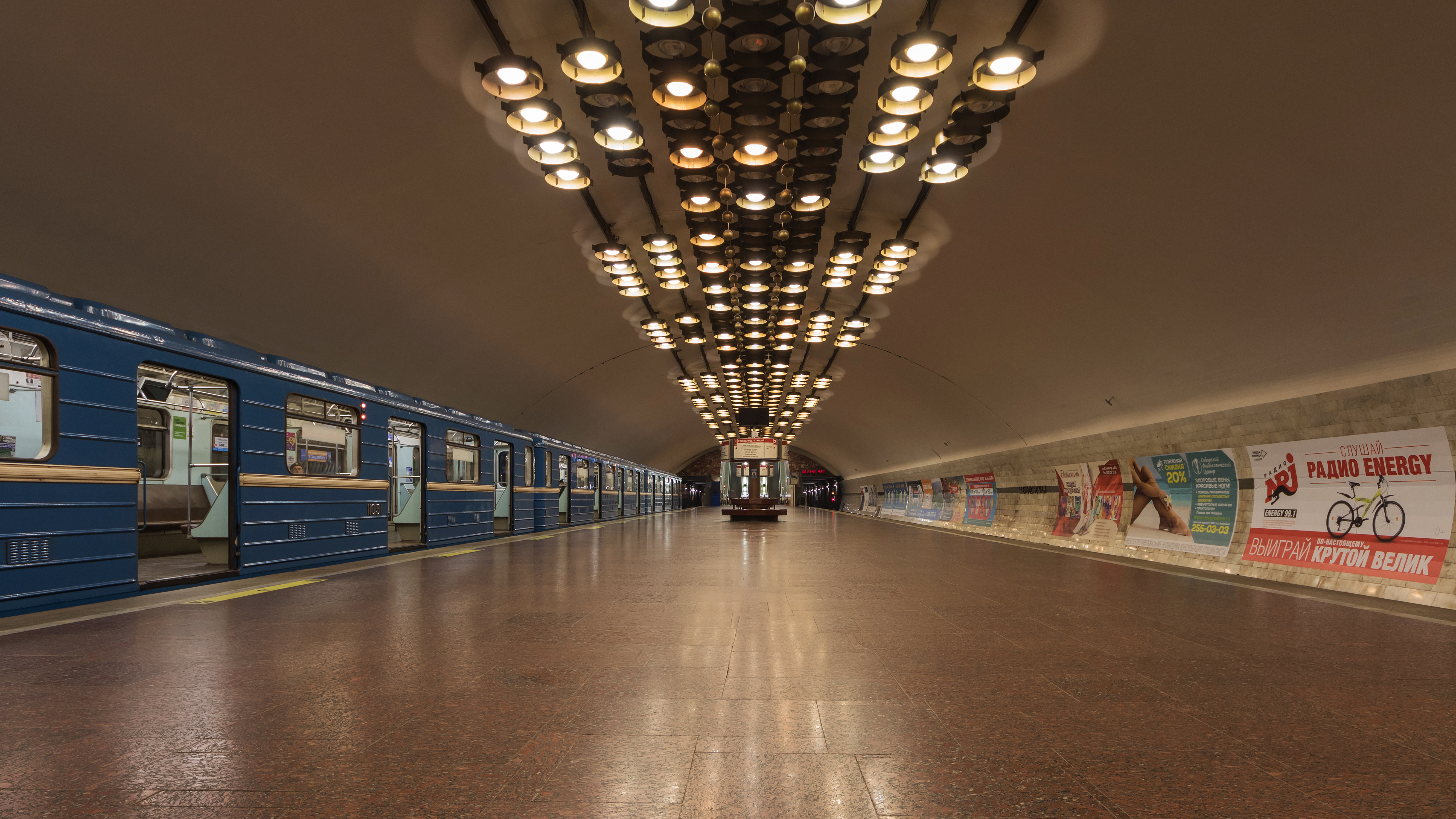 Zaeltsovskaya metro station in Novosibirsk, Russia